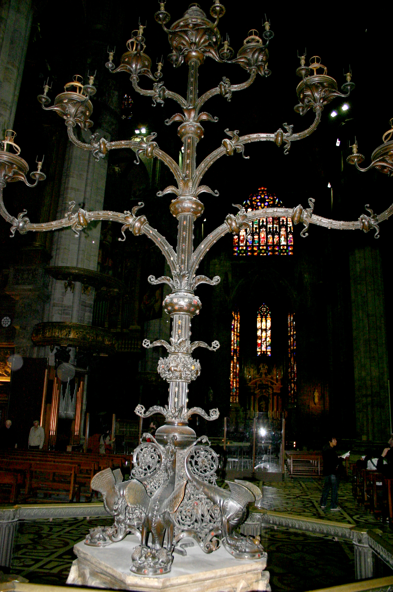 Cathedral in Milan, Italy. The gothic-style Trivulzio chandler, an early 13th century work of art by an anonymous anglo-norman master. It is shaped as a menorah, as a symbol of the passage from the Old Covenant (with the Jews) to the New Covenant (with the Christian Church). Picture by Giovanni Dall'Orto, March 3 2007.